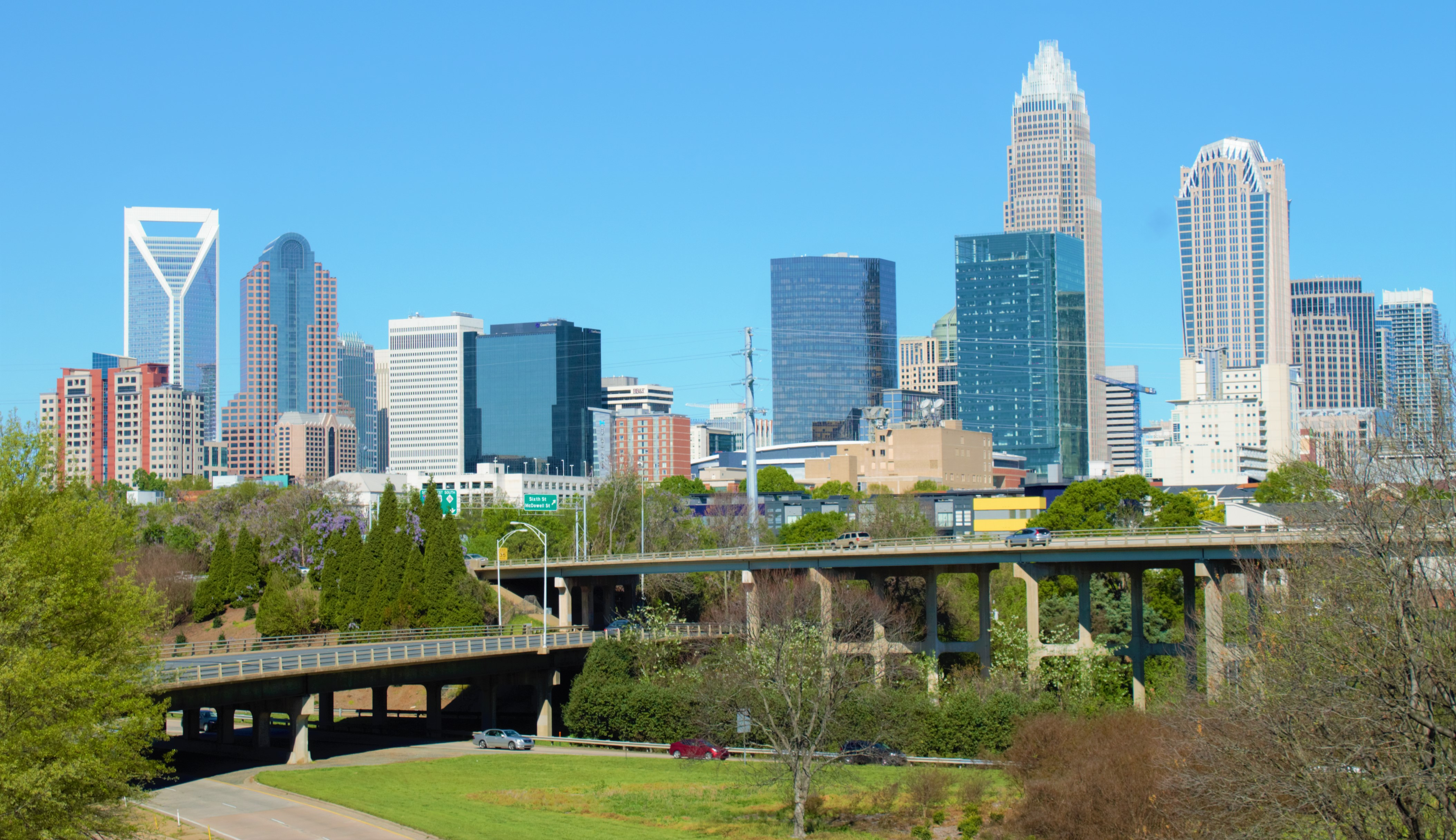 Skyline of Charlotte, North Carolina in 2016.